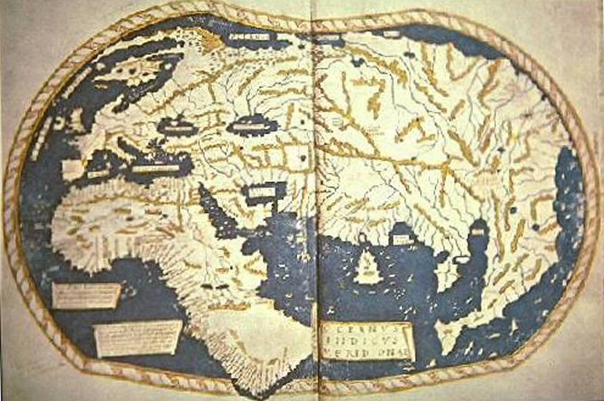 The world map of "Henricus Martellus Germanus" (Heinrich Hammer the German), Florence 1490-92. The first map with the Dragon Tail. It is a mixture of Ptolemy, recent Portuguese discoveries and unknown sources. Displays the Cape of Good Hope, rounded by Bartolomeo Dias in 1488.